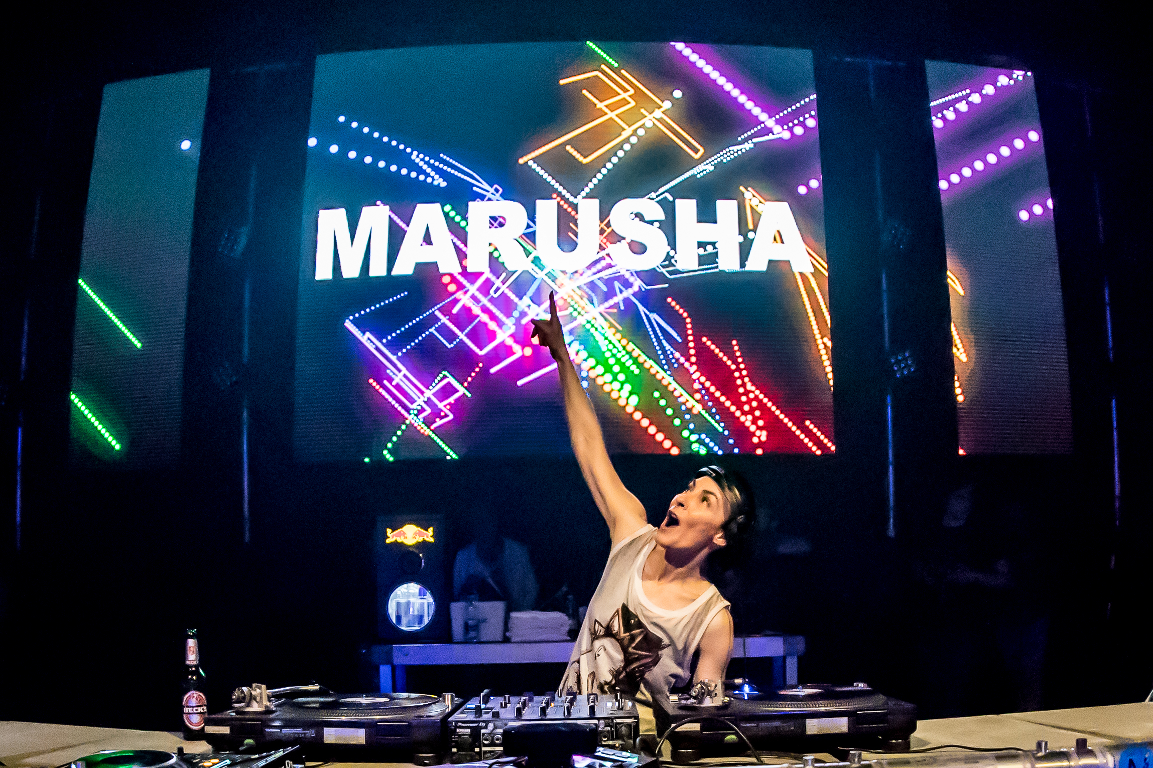 Marusha during Sunshine Live Retroactive - The 90s Rave at Maimarktclub, Mannheim, Baden-Württemberg, Germany on 2017-04-09, Photo: Sven Mandel